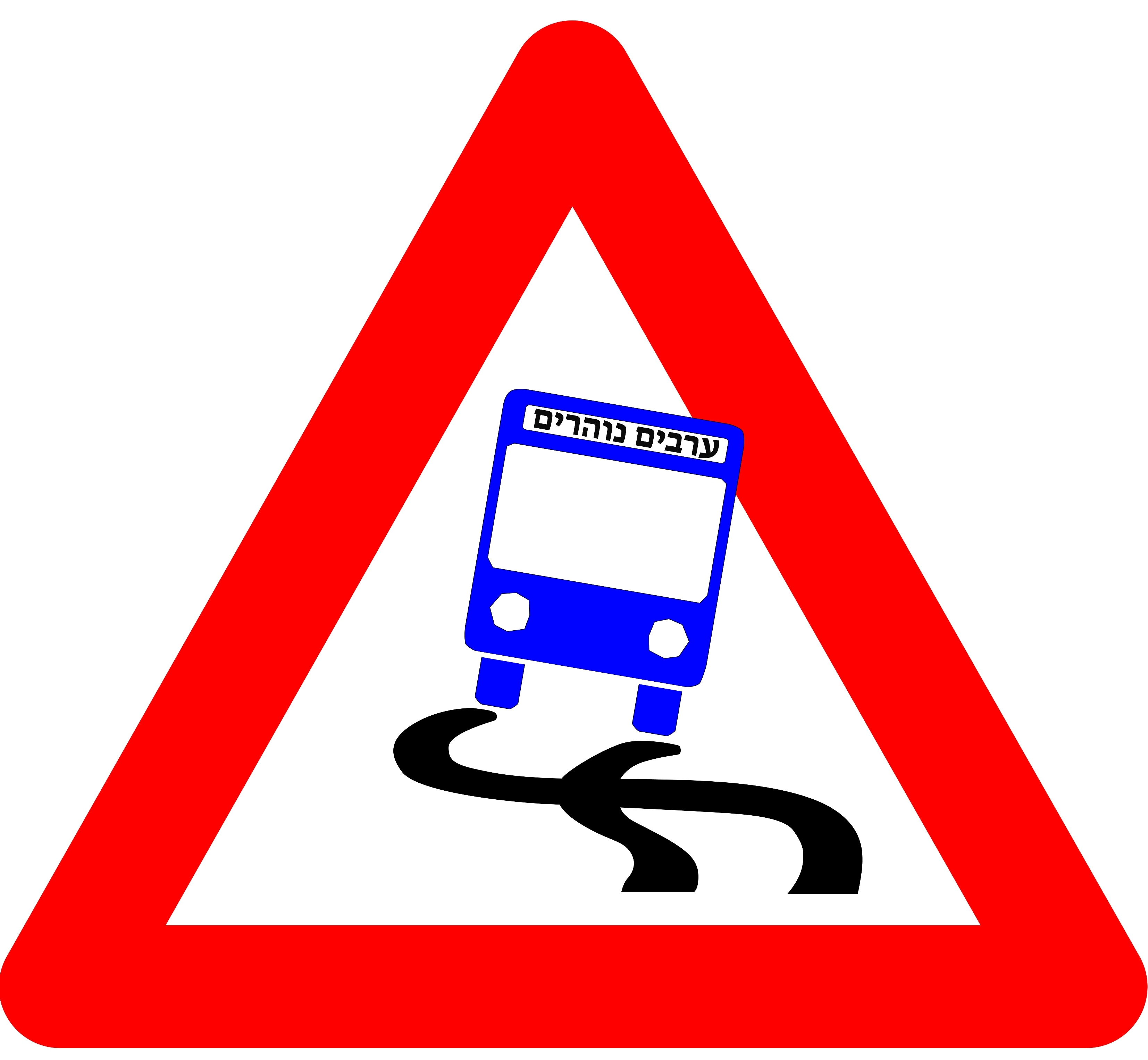 road signsסכנת החלקה. עבודה דיגיטלית על פי.וי.סי 2016